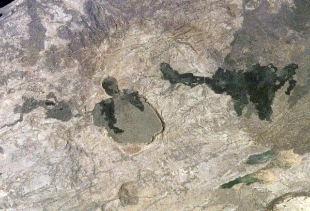 The Kone volcanic complex, also known as Gariboldi, is composed of a series of silicic calderas and young basaltic cinder cones and lava flows. North lies to the lower left in this Space Shuttle image. The dark-colored basaltic lava flows on the caldera floor were erupted during the first half of the 19th century along a hinge line between a smaller caldera on the east and a larger, 5-km-wide caldera on the west. The larger young lava flow at the right was erupted from a vent on the SE flank.